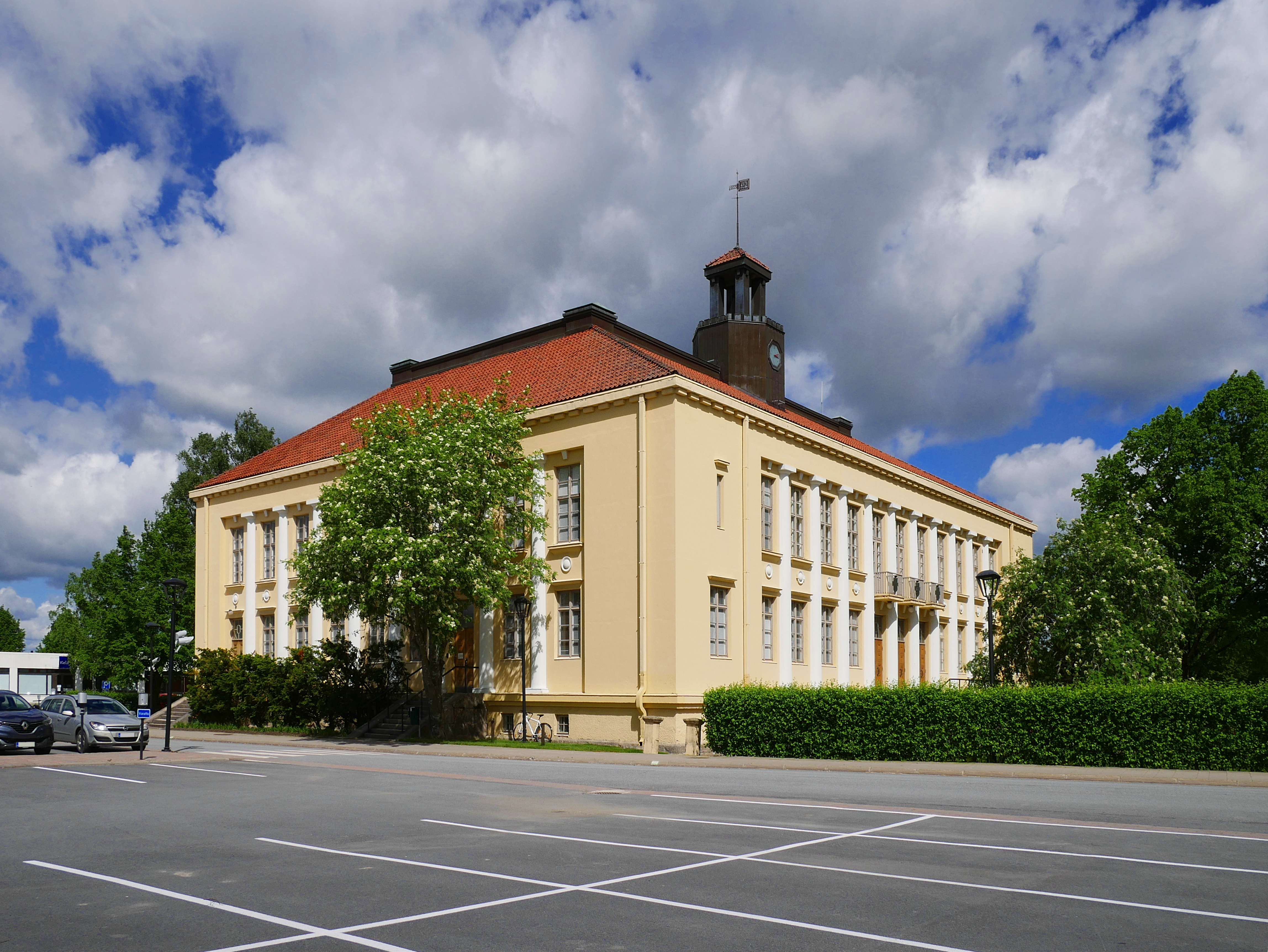 Lapua town hall.